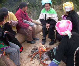 烤火的壮族妇女。Vincivinci拍摄于广西龙脊。 Zhuang women, Guangxi, China